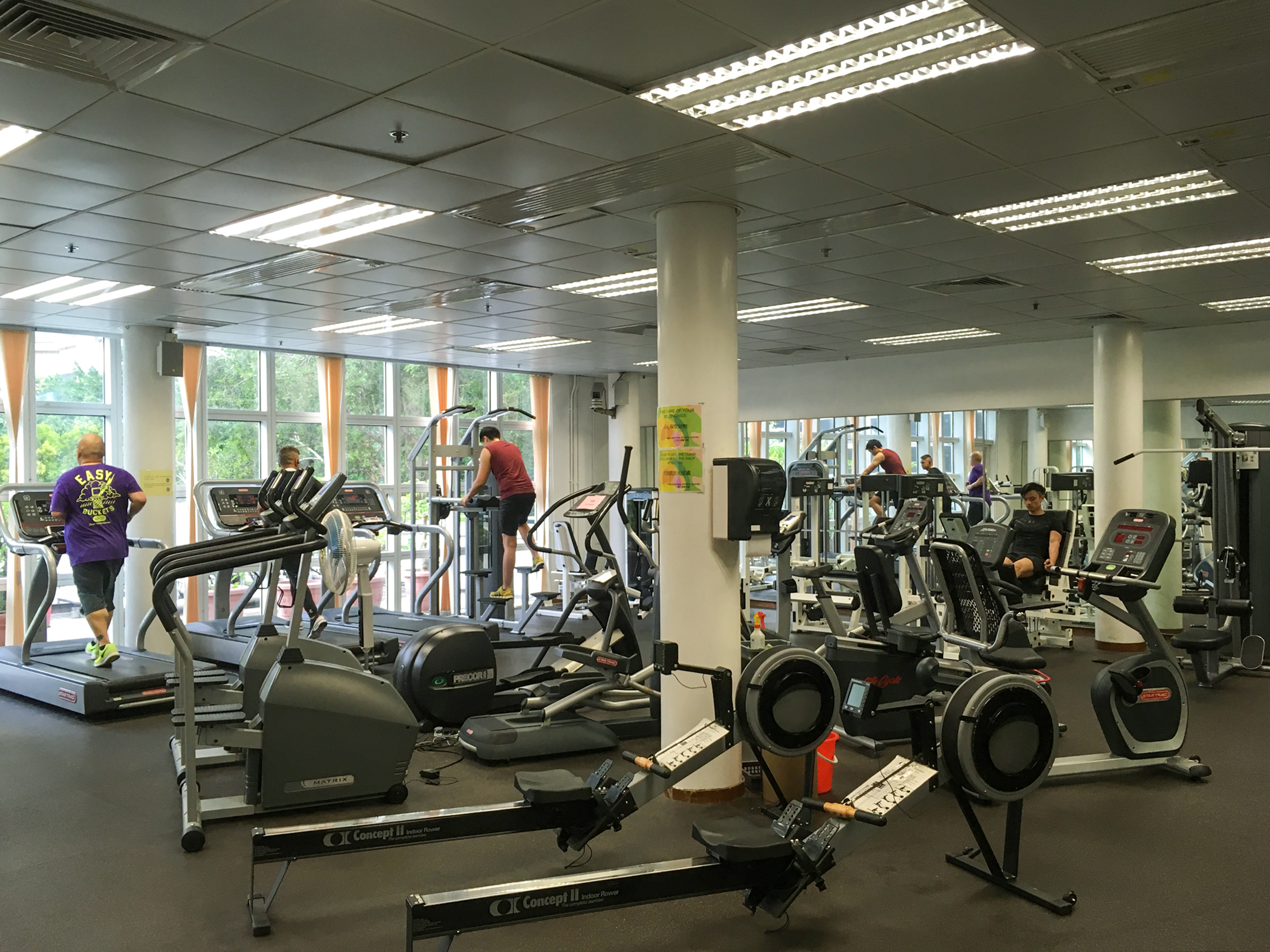 Kowloon Park Sports Centre Gym Room_